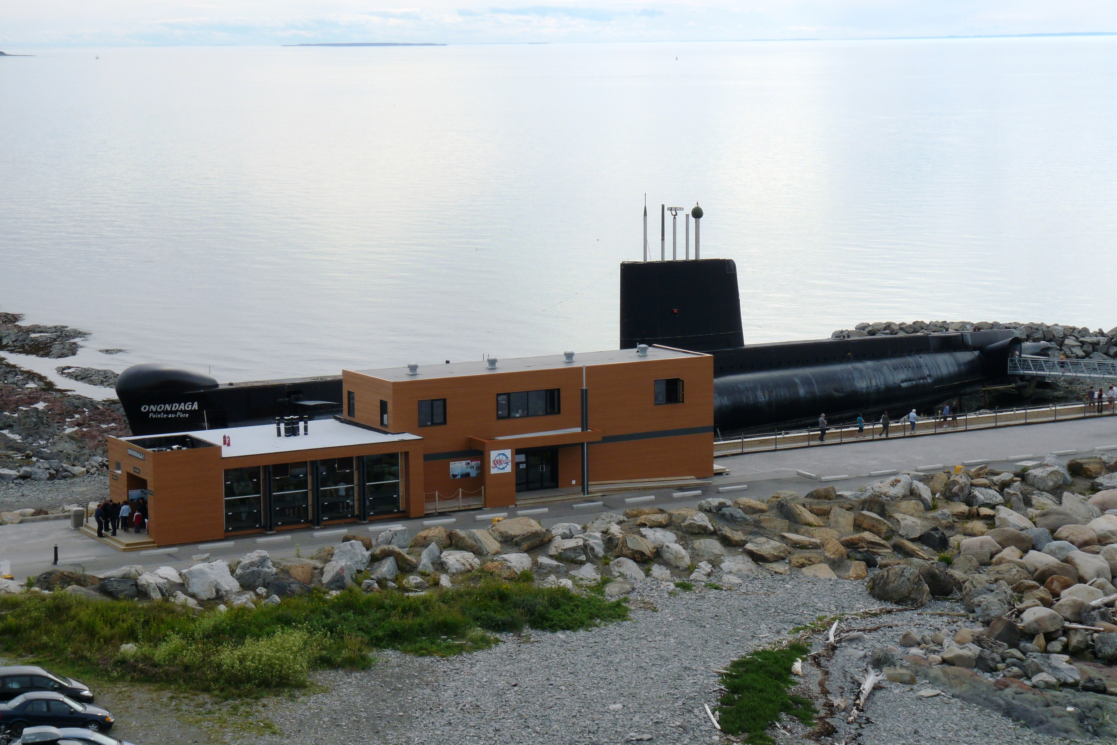 Onondaga submarine and enlarged kiosque of 2010